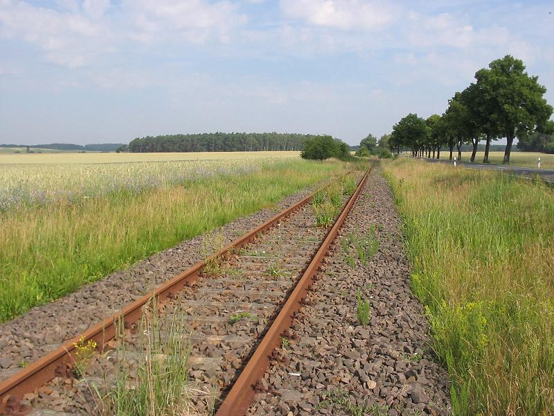 Closed railway Brandenburgische Städtebahn between Dahnsdorf (municipality Planetal) and Preußnitz. The village Preußnitz is a part of the town Belzig in the state Brandenburg, Germany. The railway runs along the Bundesstraße 102.